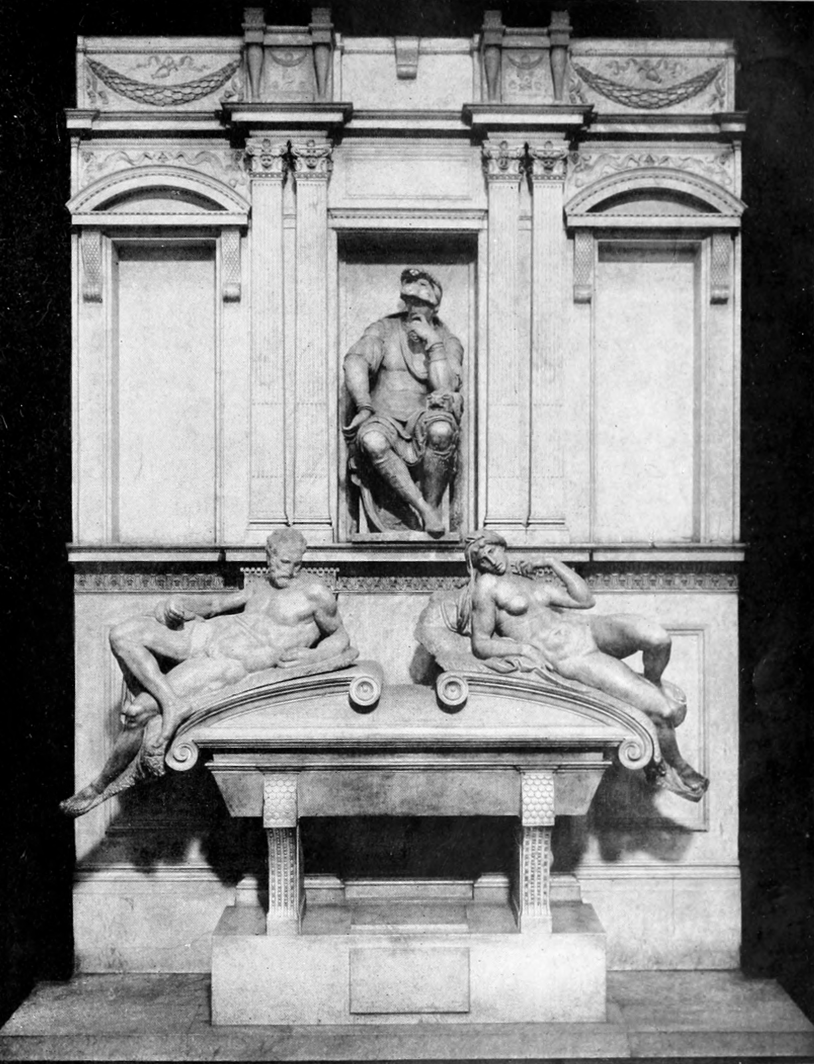 Illustrations from The Life of Michael Angelo by Romain Rolland, translated by Frederic Lees: Monument of Lorenzo de' Medici